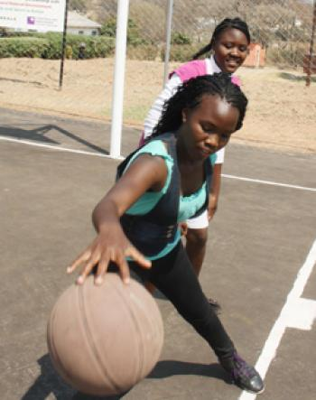 sports at pk